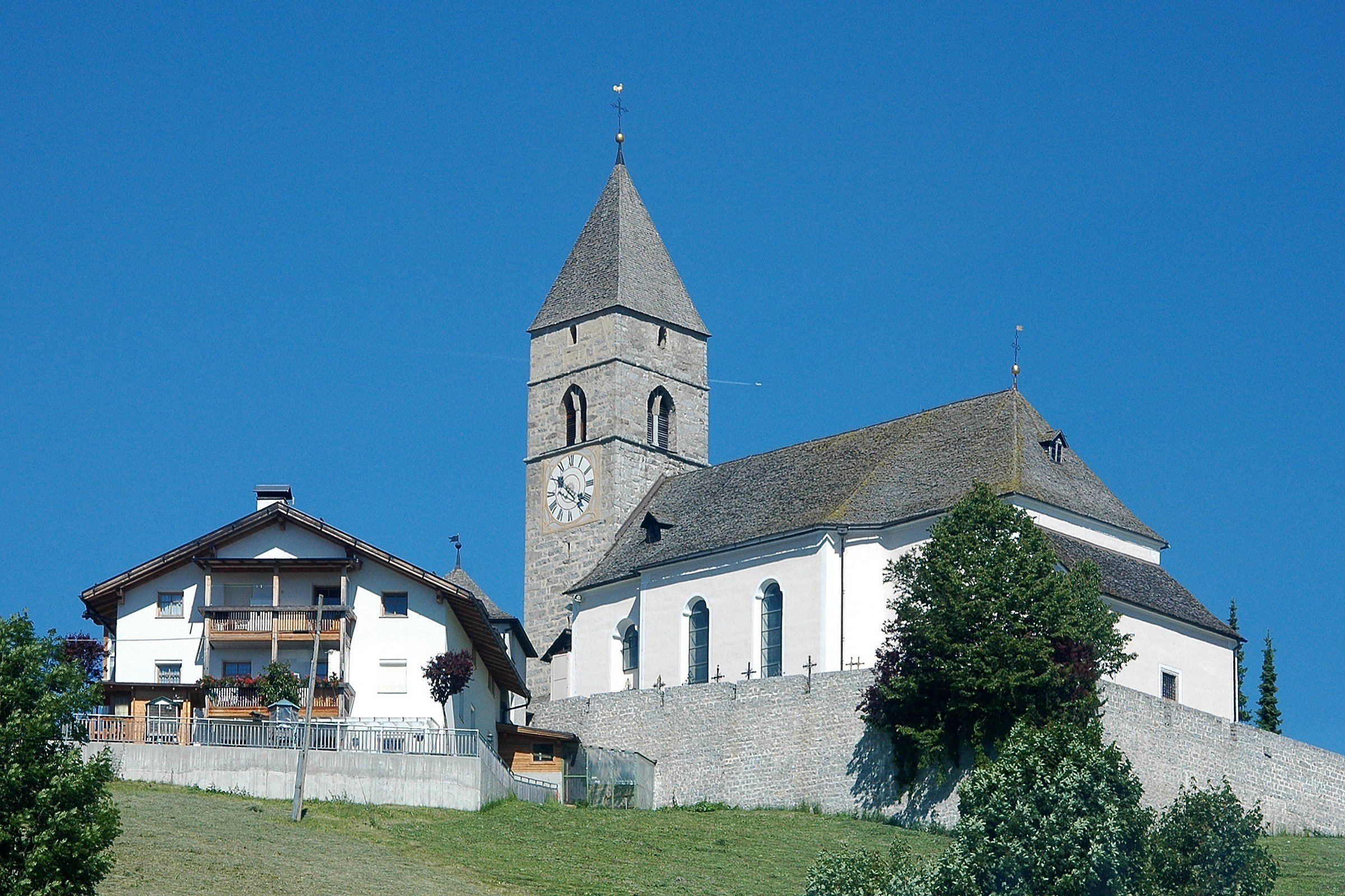 St. Jakobus Church of Meransen